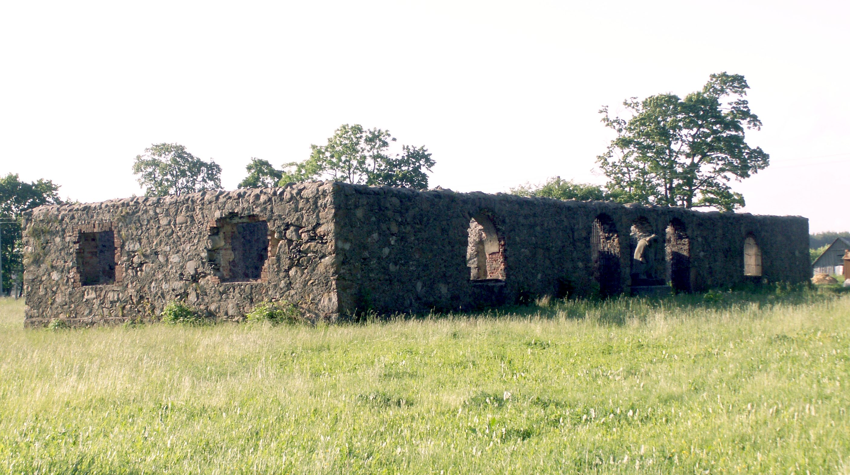 Settlement Dimitravas, Kretinga district, Lithuania